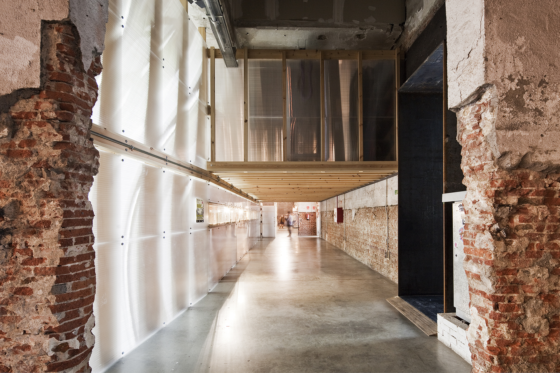 Exterior view of Factoría Cultural Madrid. Photo by Simona Rota